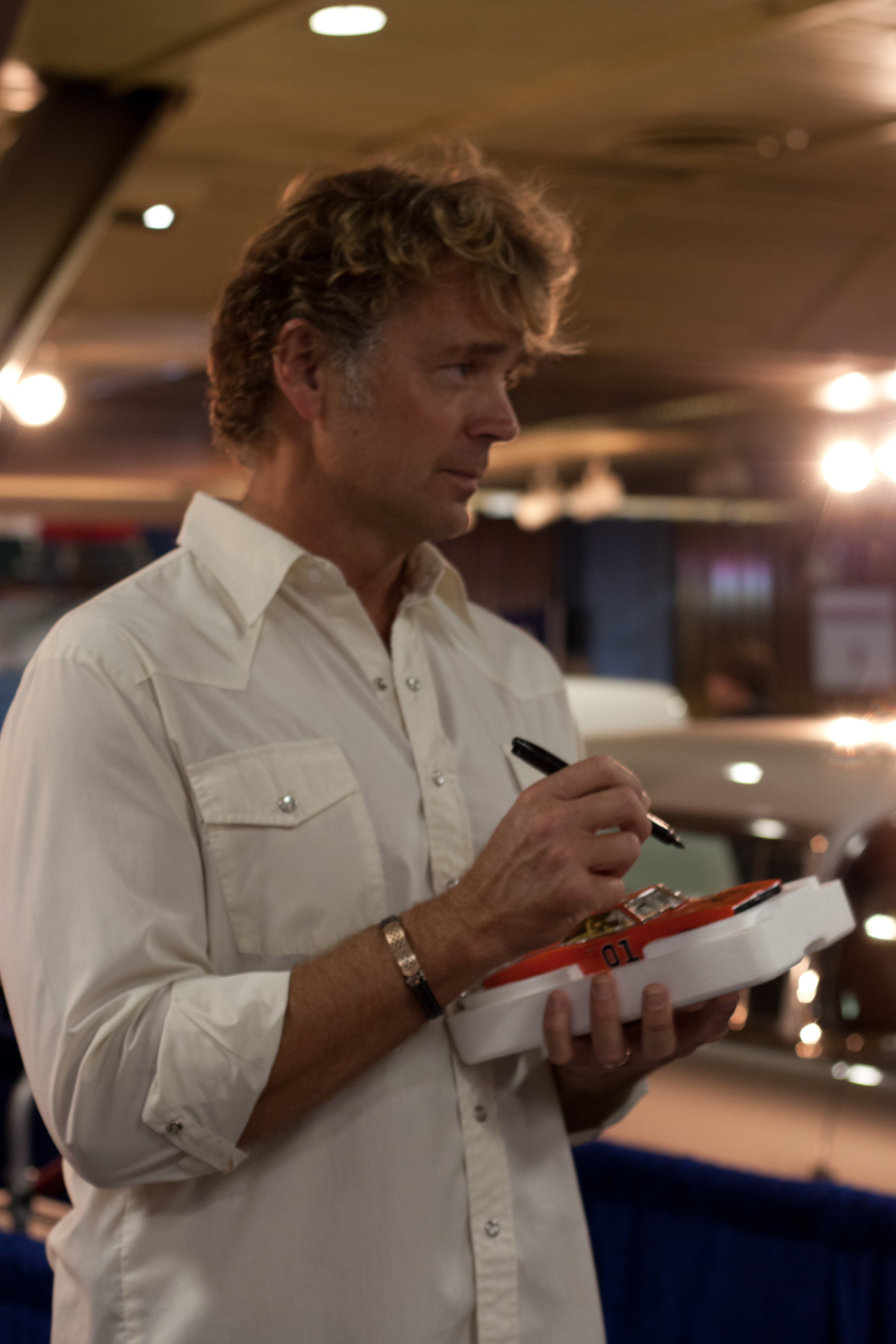 John Schneider at the 2010 Sacramento Autorama.